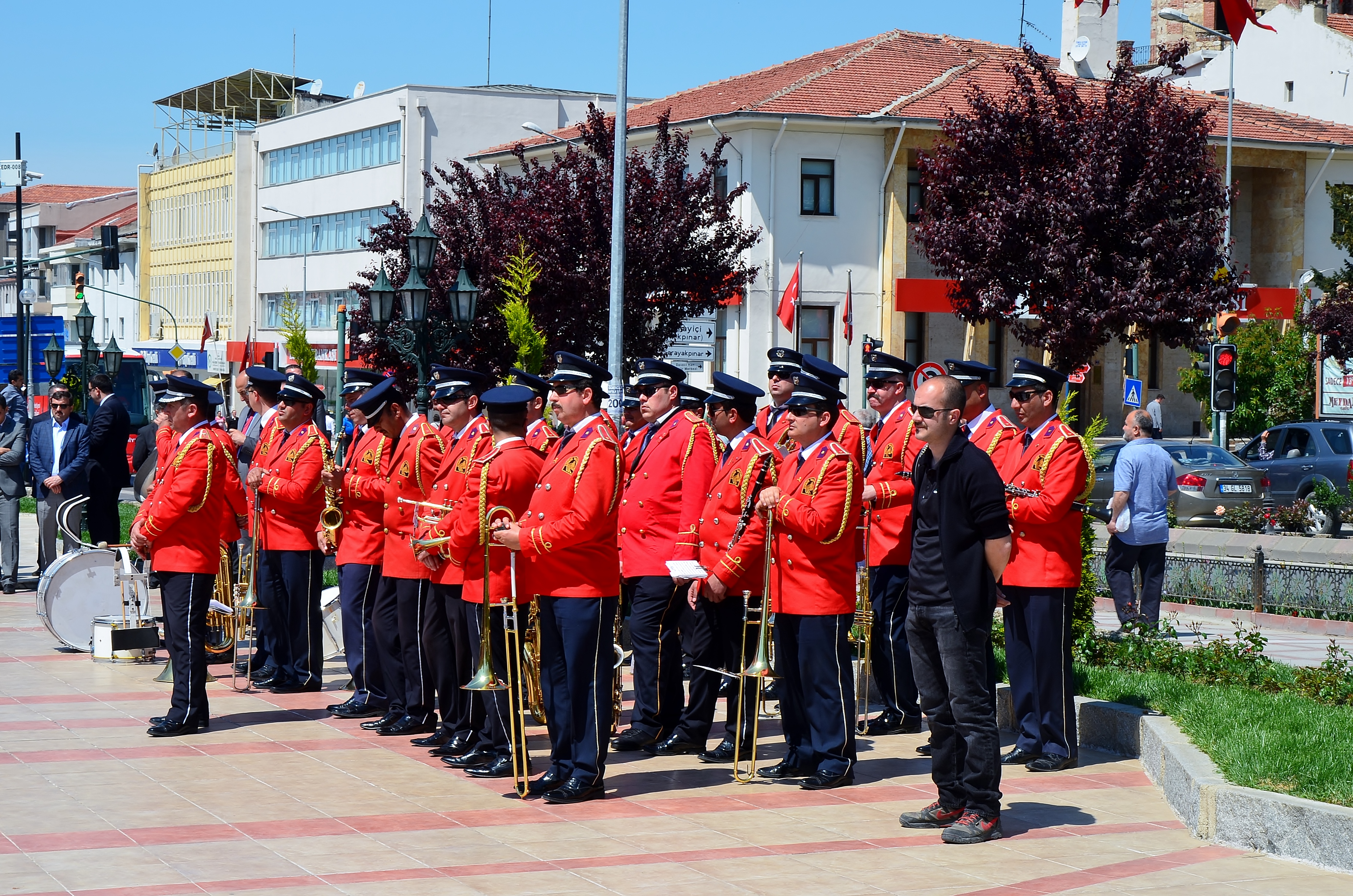 Band of Edirne Municipality, Turkey, during a local memorial day